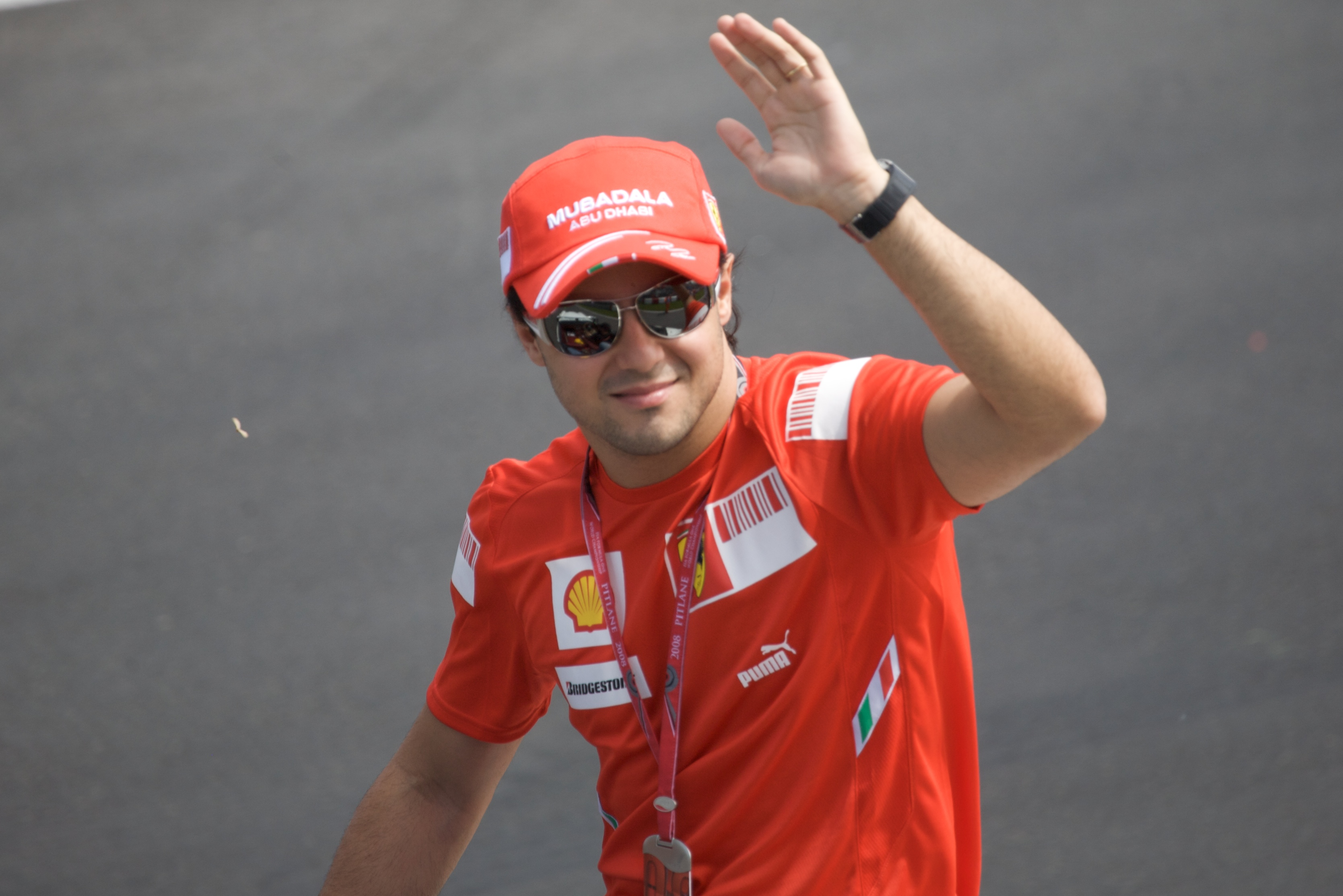 Felipe Massa at the 2008 Canadian Grand Prix.